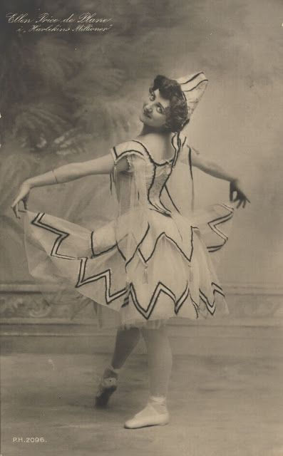 Ellen Price in Harlekino Millioner.